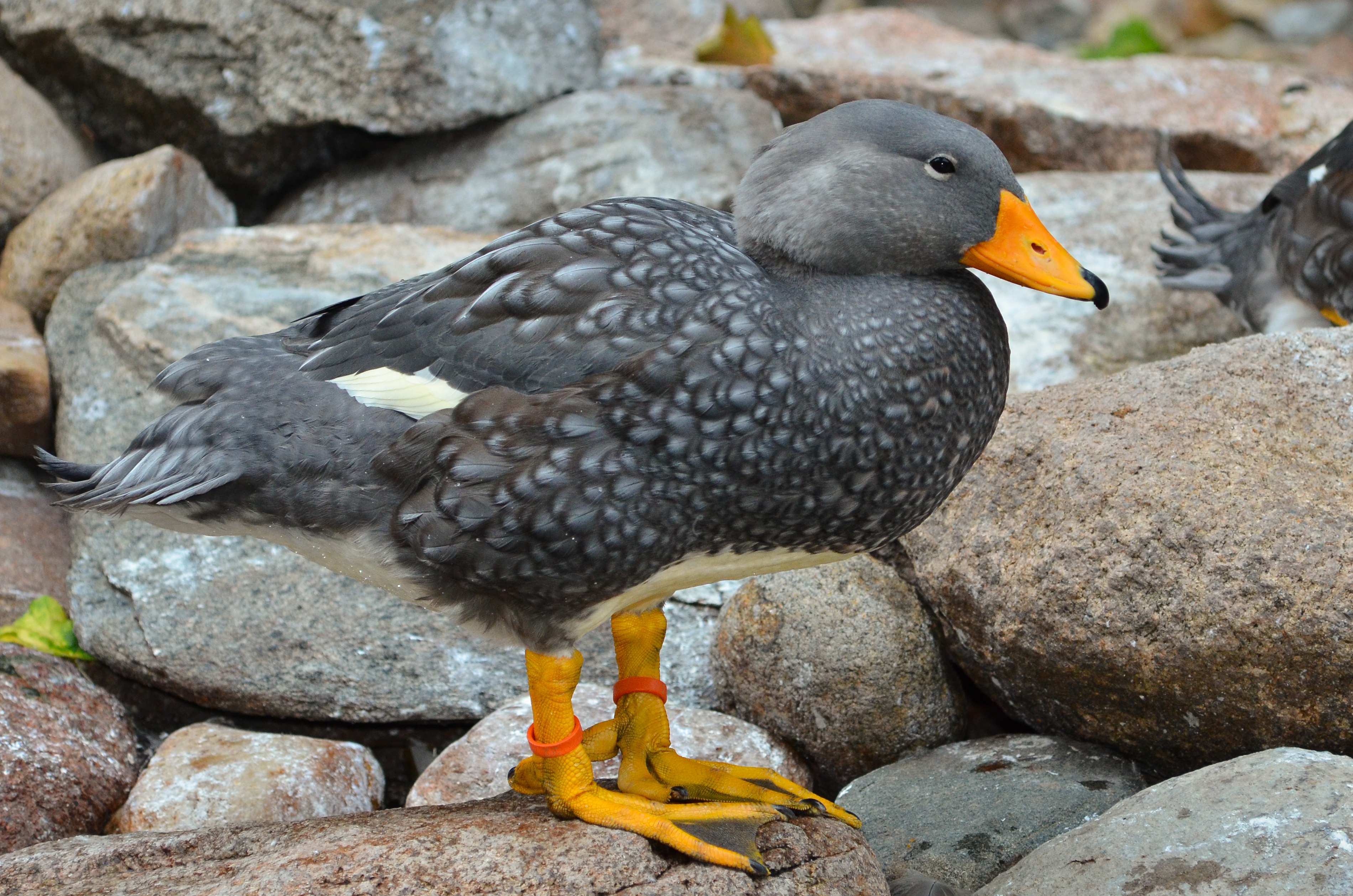 Fuegian Steamer Duck (Tachyeres pteneres) also called Magellanic Flightless Steamer Duck at Weltvogelpark Walsrode (Walsrode Bird Park, Germany)